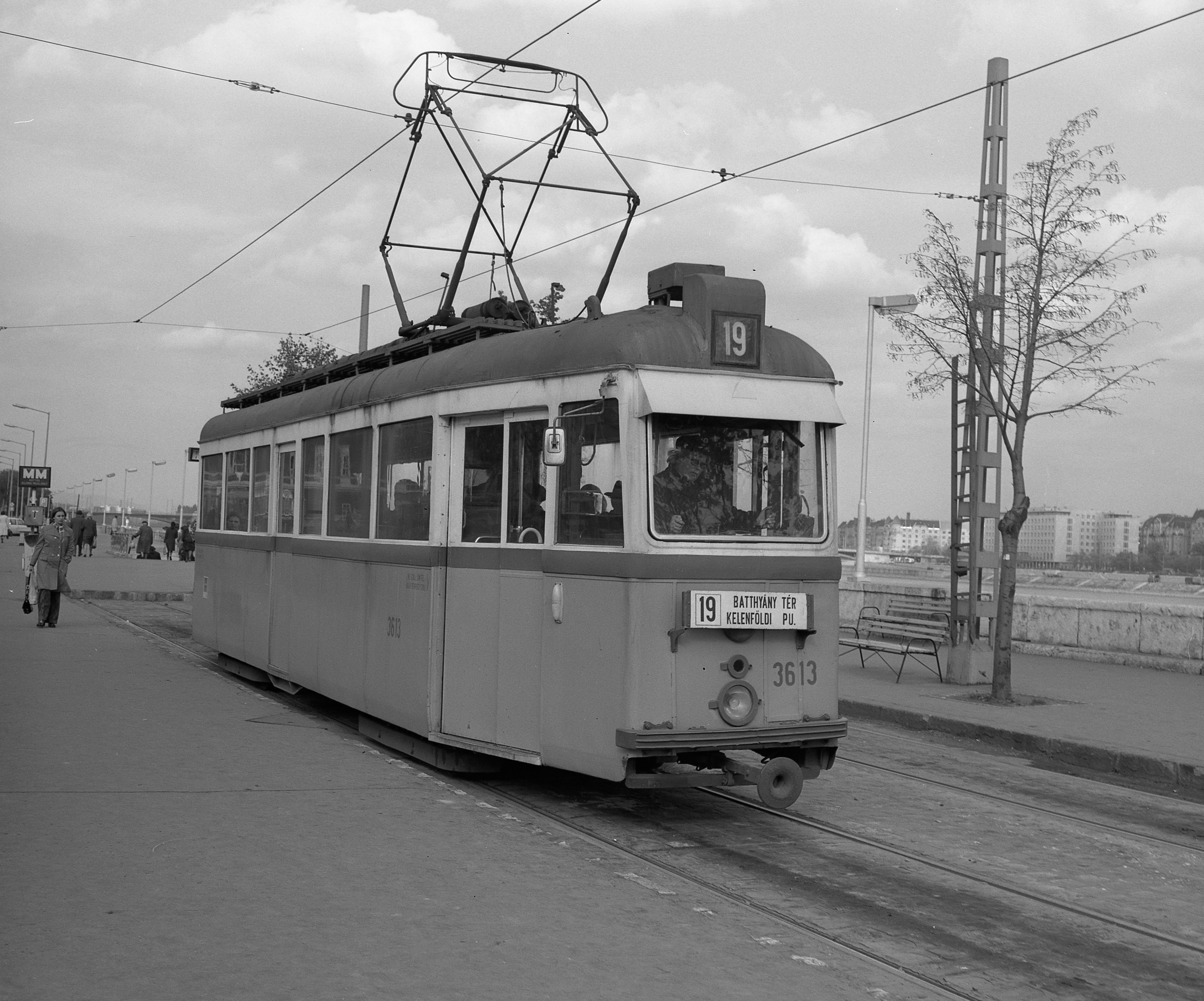 Location: Hungary, Budapest I. Tags: tram, tram stop, Ganz-brand, Stuka tramway, Budapest